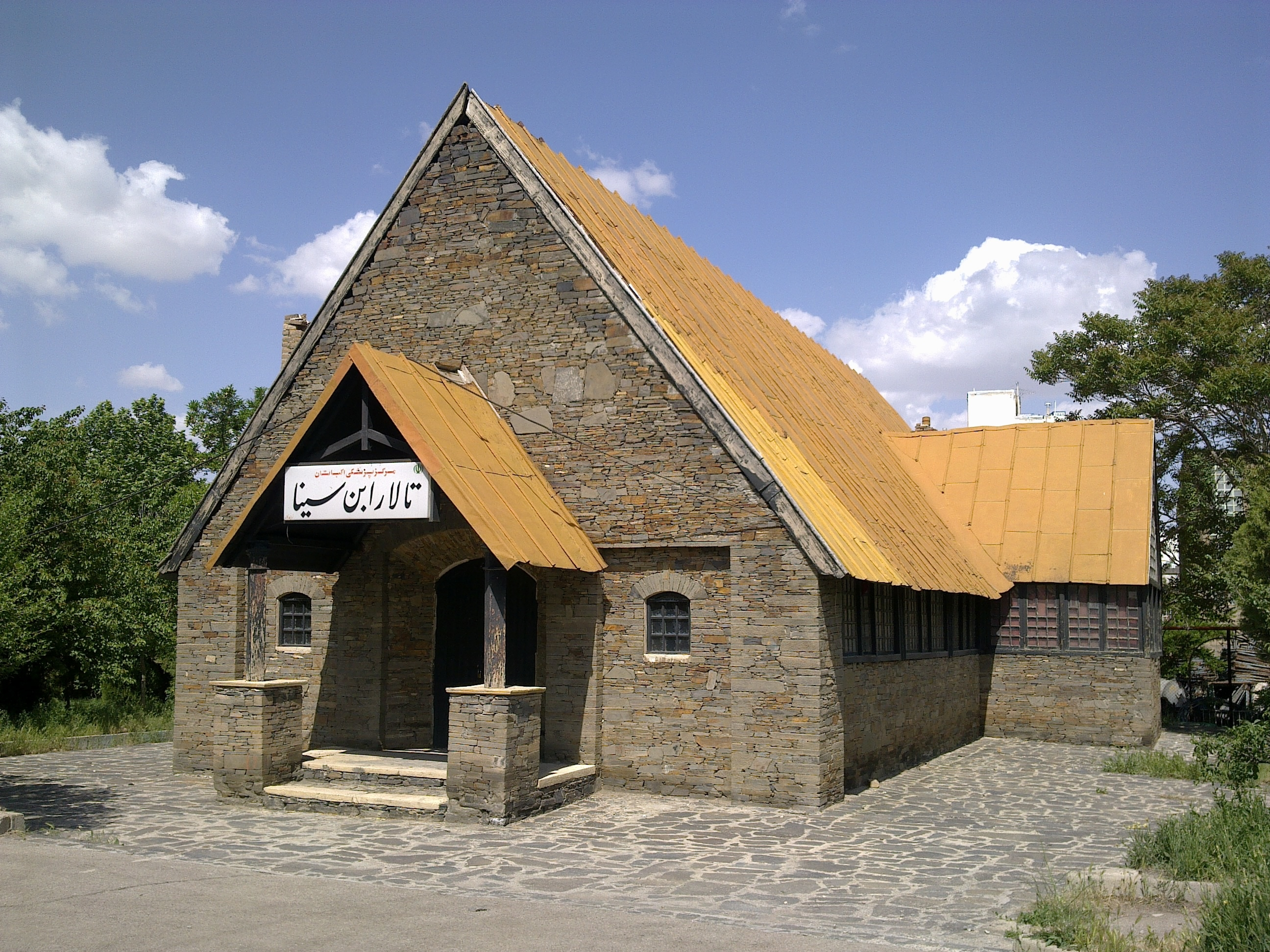 A church inside Ekbatan hospital in Hamadan, Iran.